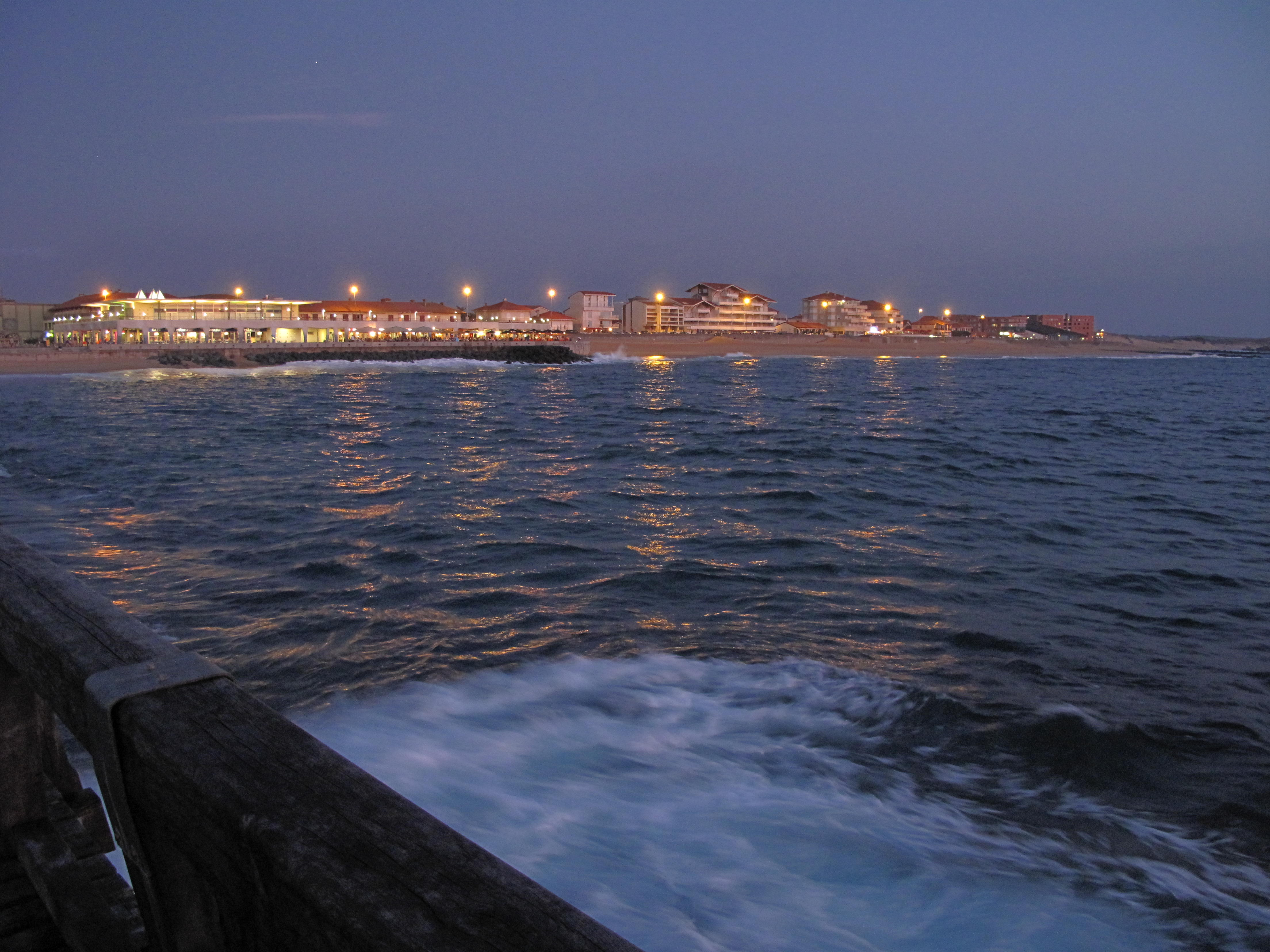 Sea front of Capbreton (Landes, France) from the breakwater in the evening